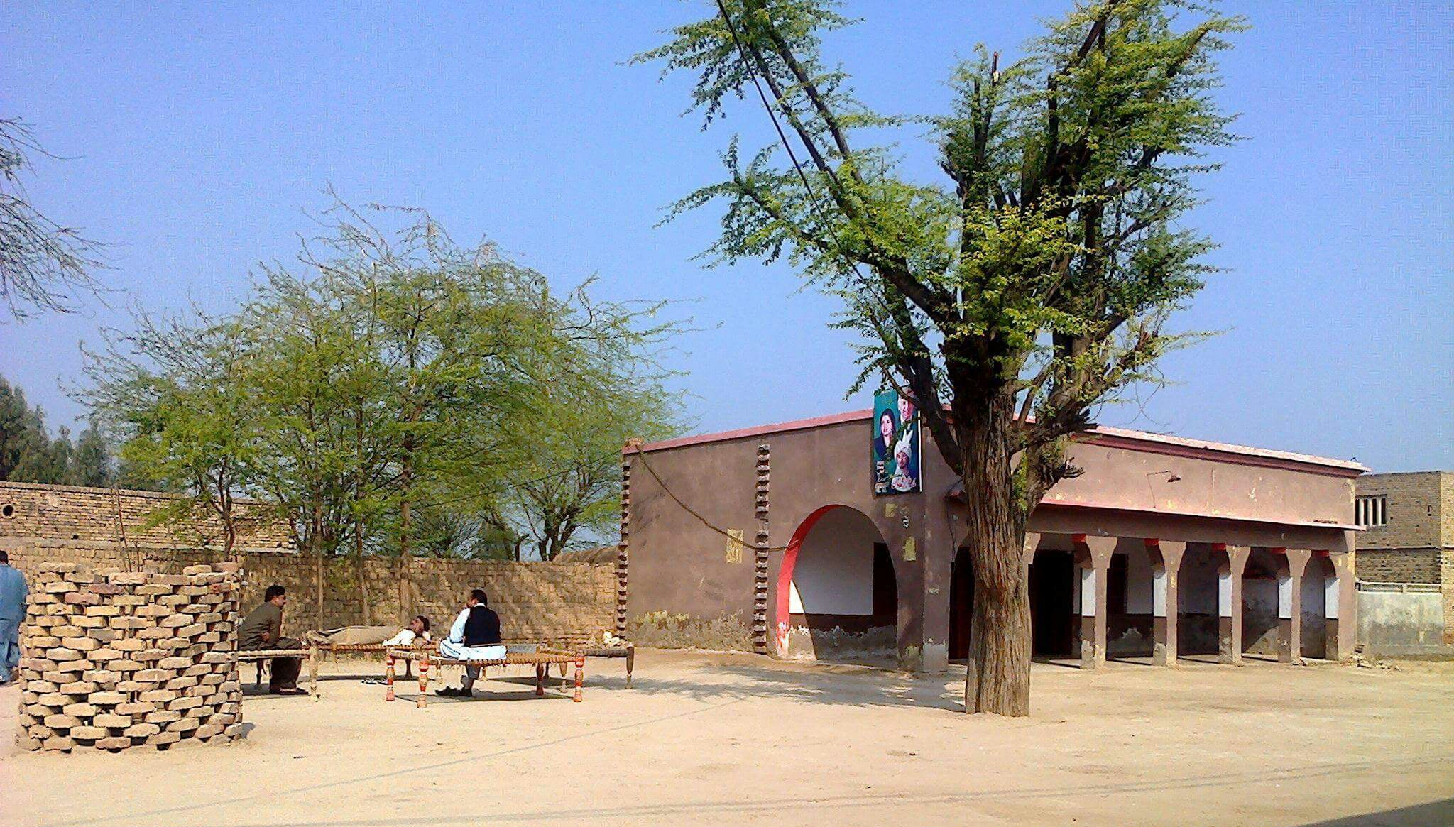 I also Uploaded this Photo on Botala Facebook Page & on website